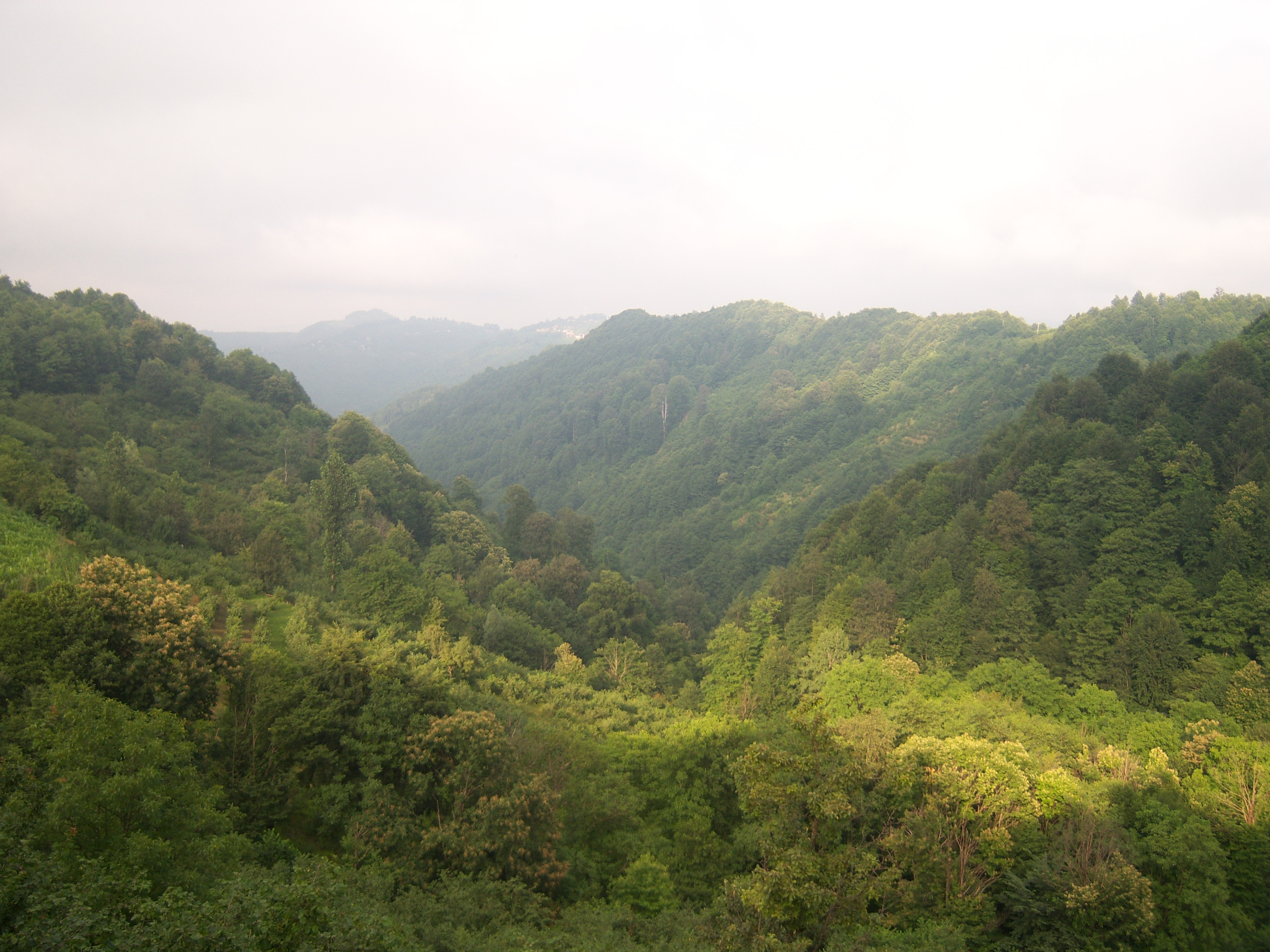 General view of the ridge of Akbaba village from Kozluk neighborhood, 2009.